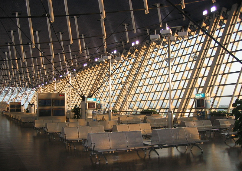 Shanghai Pudong International Airport interior